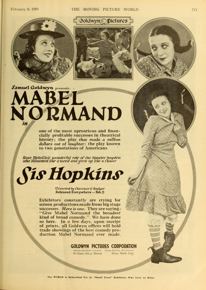 Advertisement in Moving Picture World for the film Sis Hopkins (1919) with Mabel Normand.